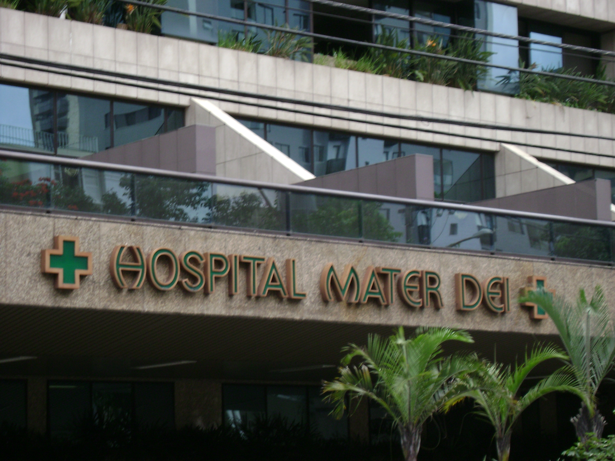 Vista da faixada do Hospital-Maternidade Mater dei, em Belo Horizonte.